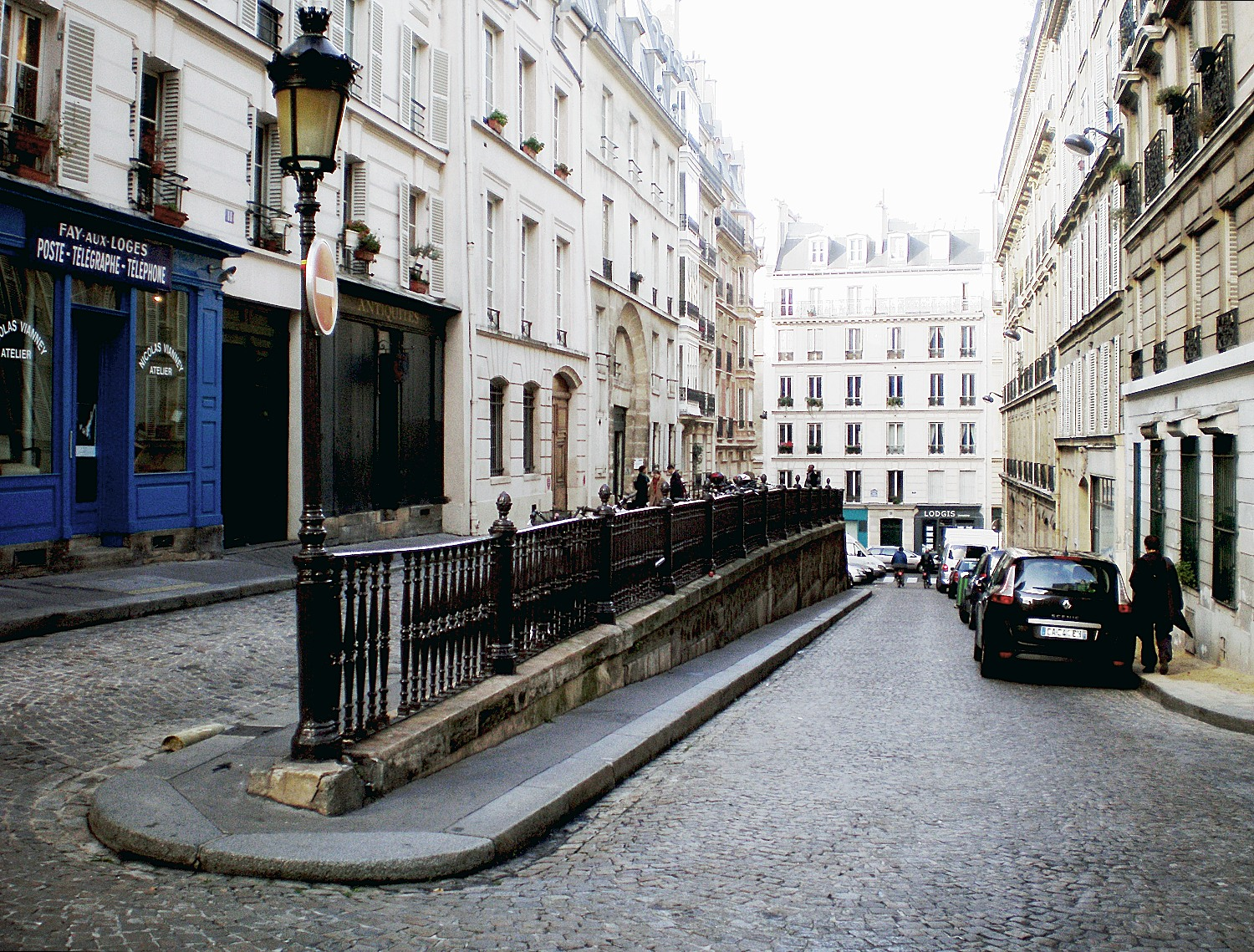 Malebranche street - Paris